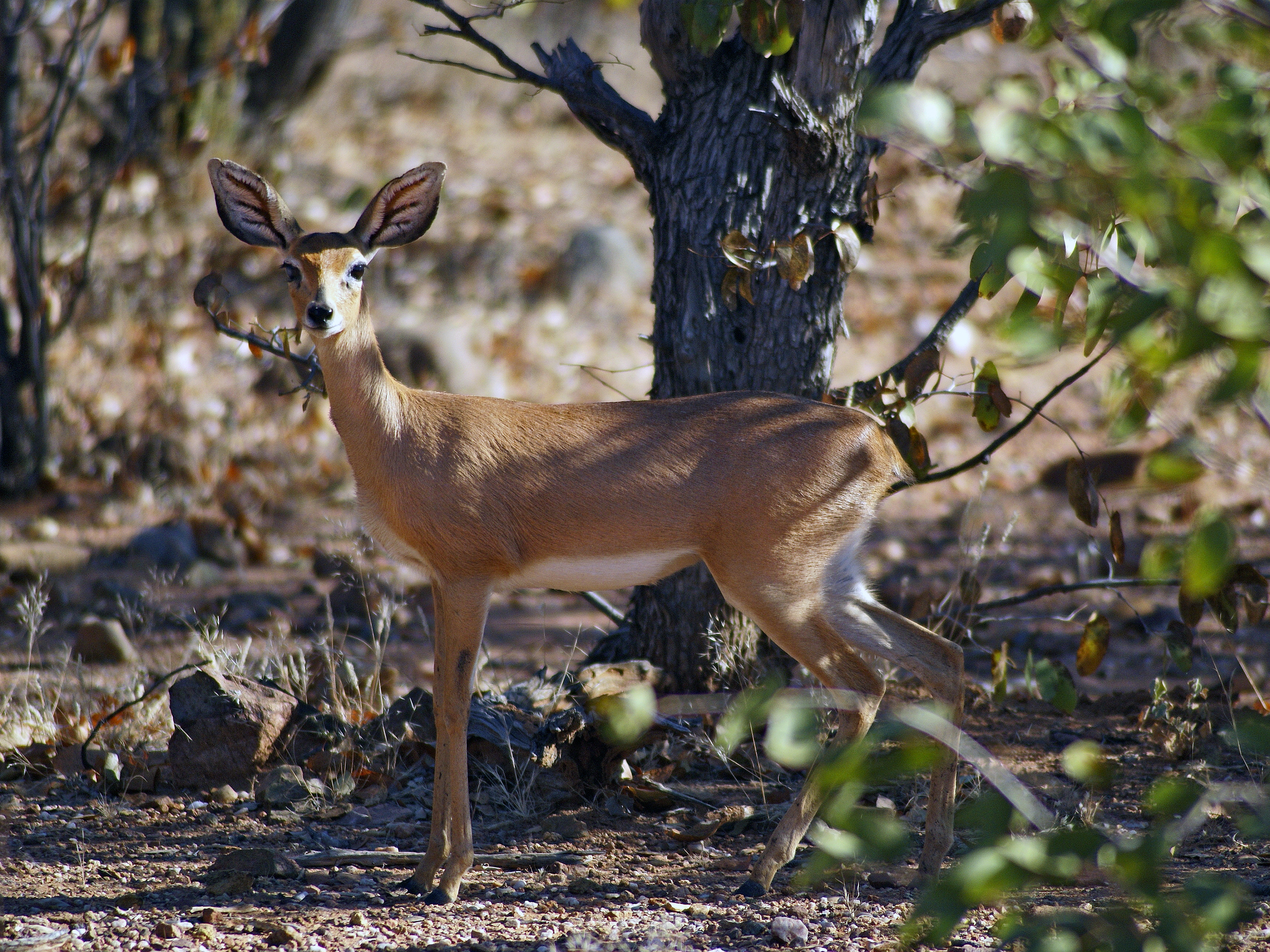 A female Steenbok in mopane woodland near Okongwati, Kunene Region, Namibia